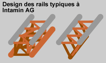 Diagram of the typical design of Intamin AG track. Drawing created by myself, Sam-Pig.